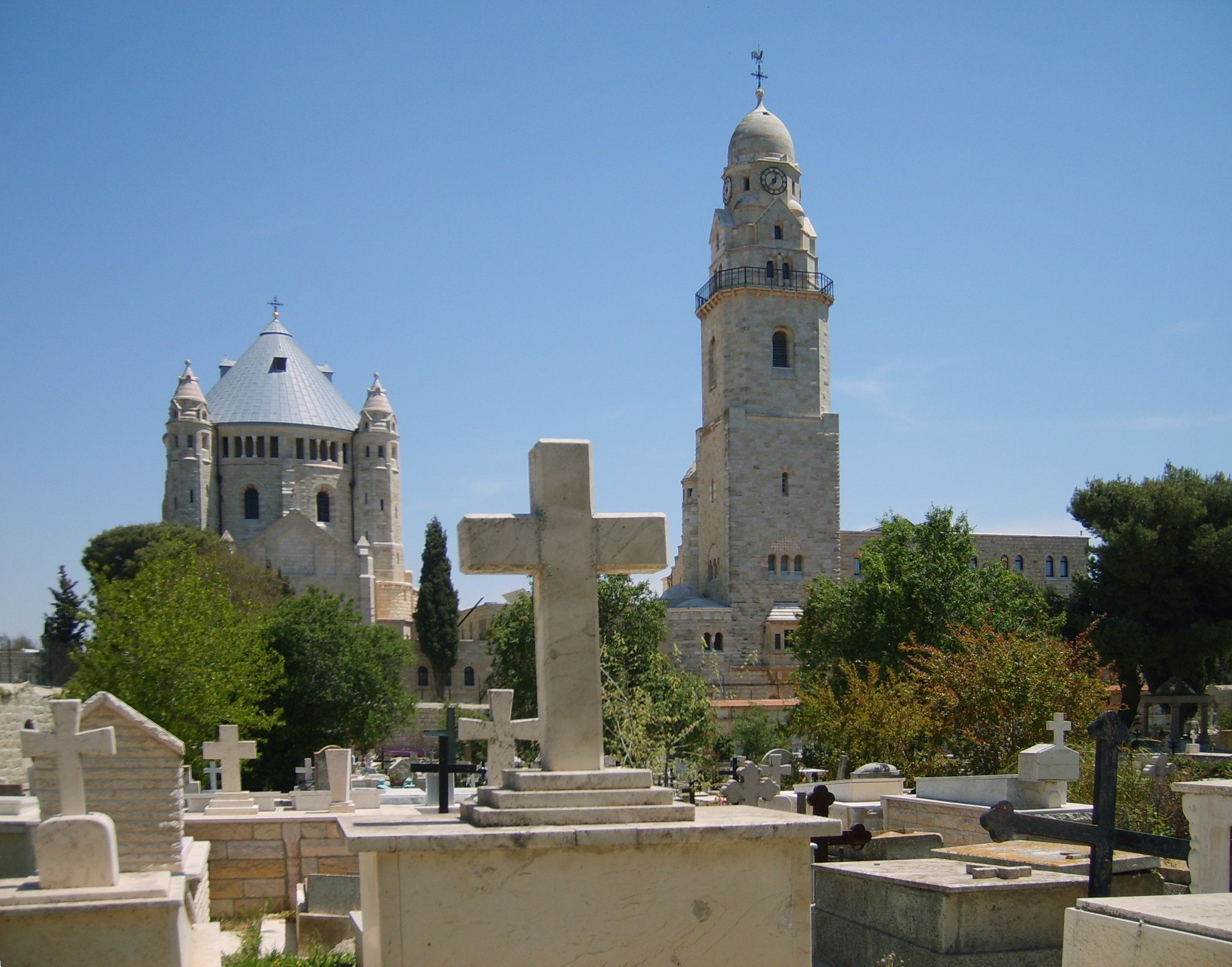 View across a Christian cemetery towards the Dormition Church.